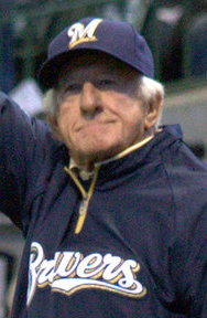 Bob Uecker acknowledges the crowd at Miller Park shortly before throwing out the ceremonial first pitch prior to the start of Game 1 of the NL Division Series between the Milwaukee Brewers and Arizona Diamondbacks on October 1st, 2011.